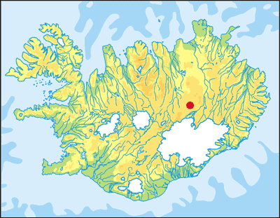 Location of Askja in Iceland